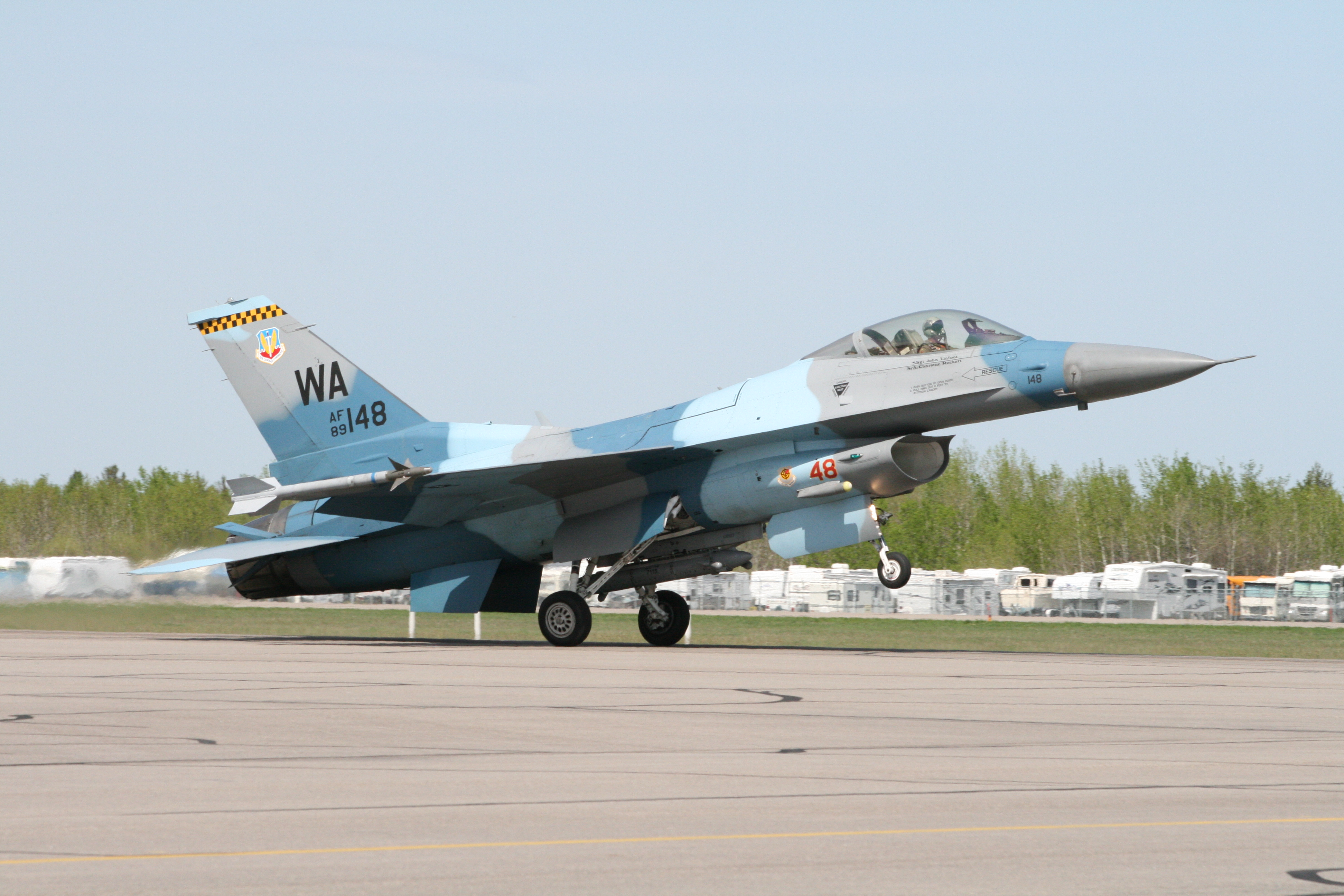 Returning after another mission at Maple Flag 41